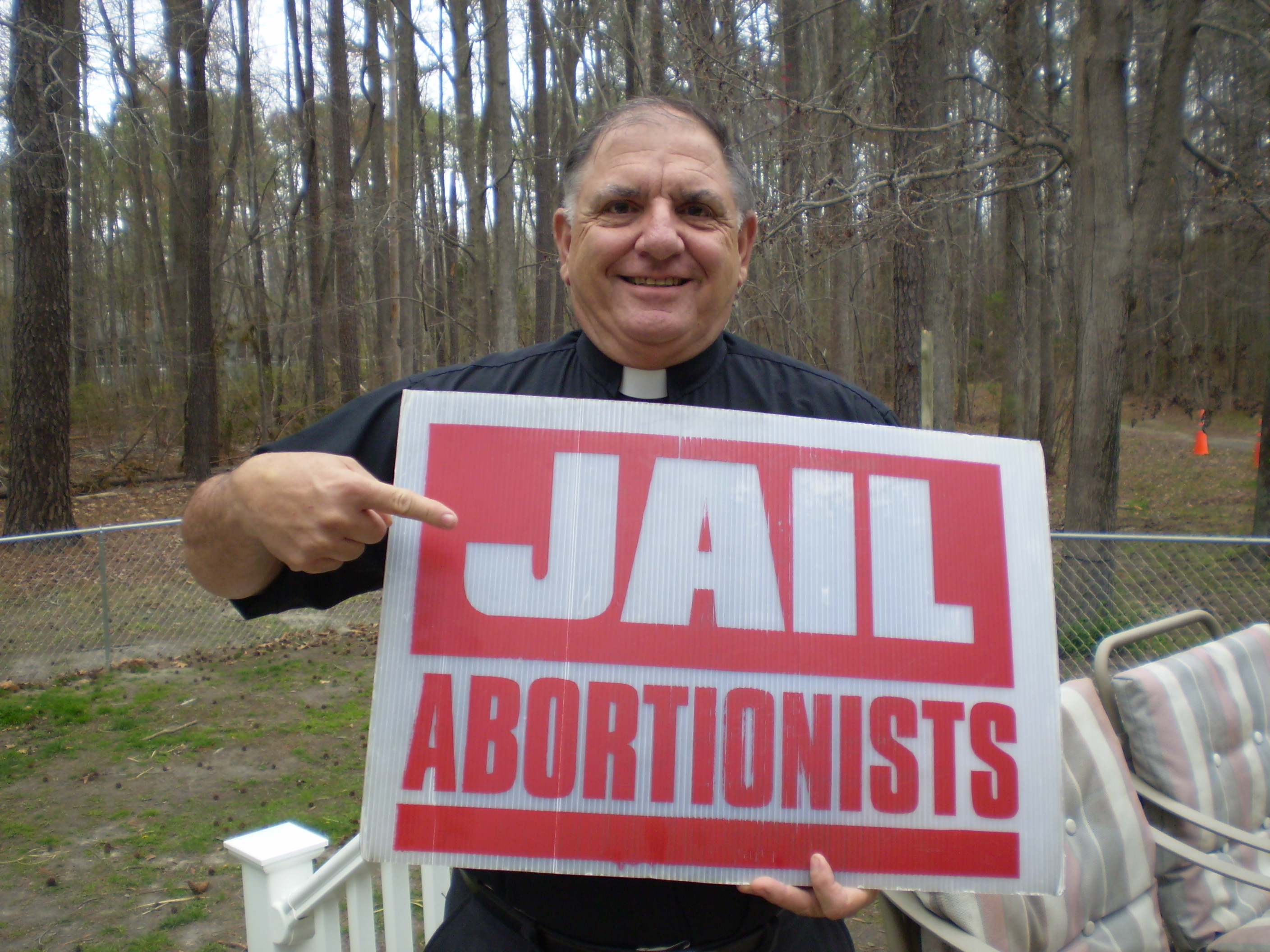 Donald Spitz holds anti-abortion sign